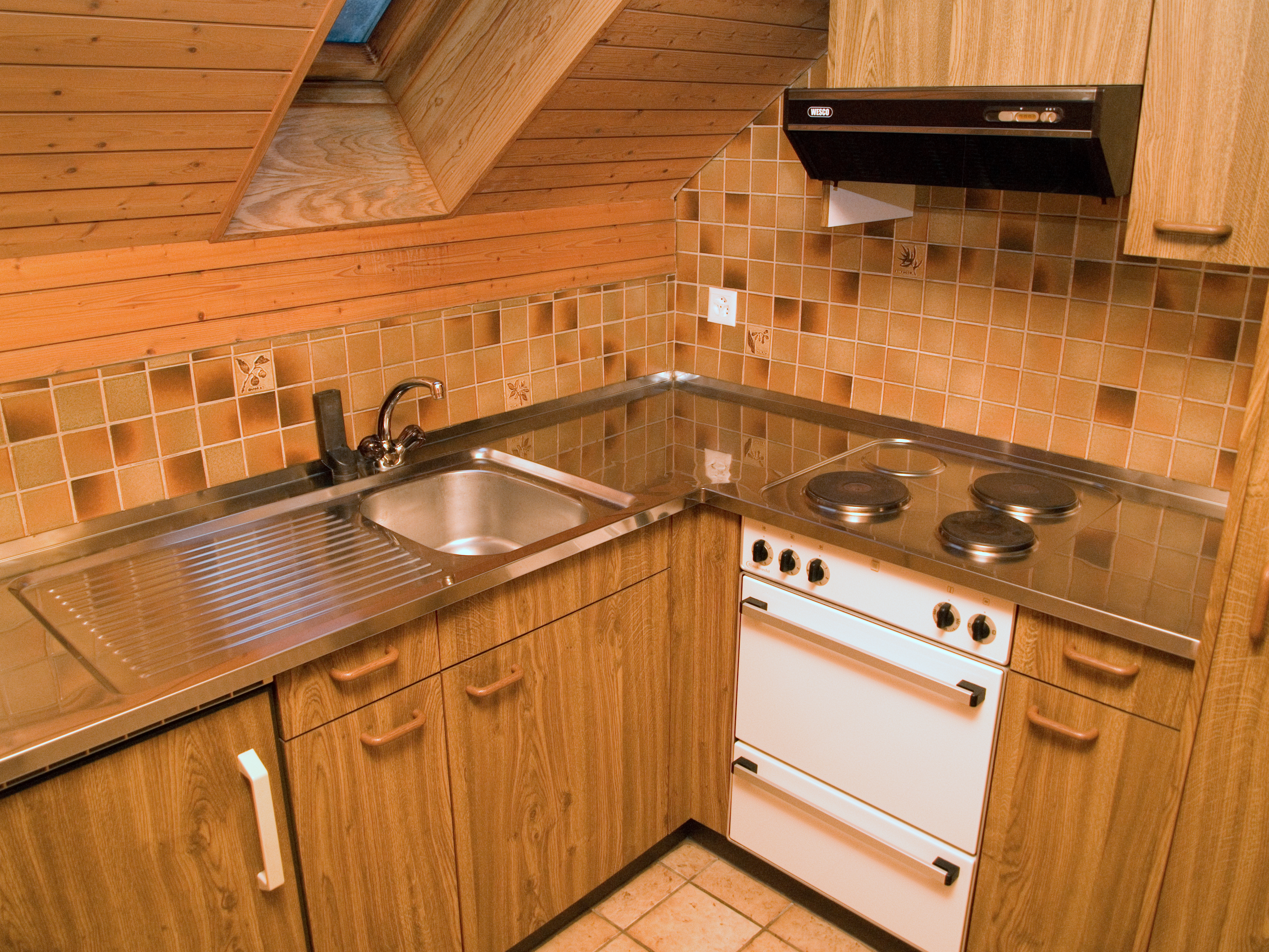 Kitchen with wood paneling and wood-imitation cupboard doors in an attic apartment with sloping Velux-type window.